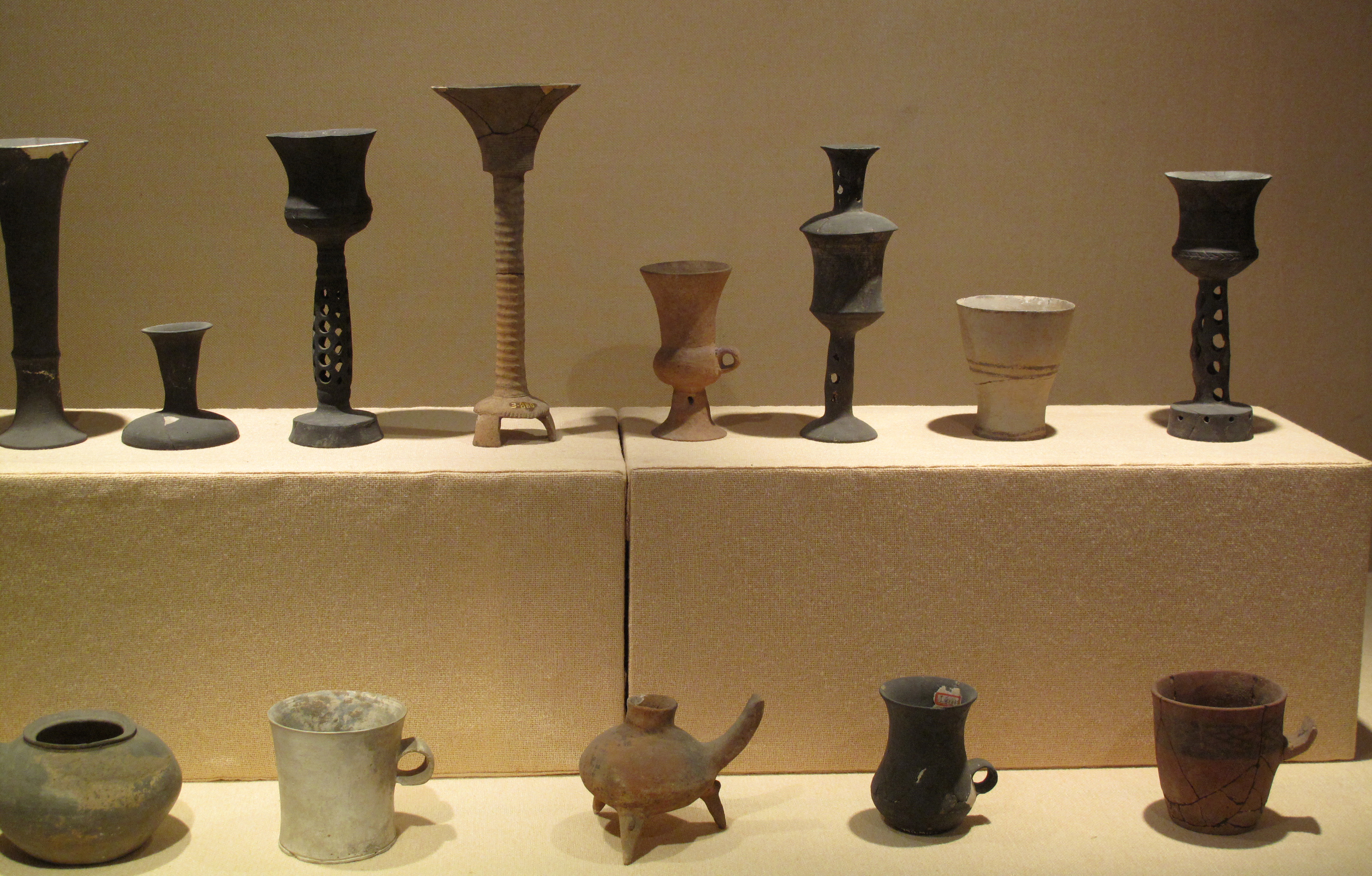 Neolithic Pottery. Longshan, 3d millennium BC. Shandong Provincial Museum A variety of pottery forms are displayed in this case: stemware, goblets, beakers, and even what looks for all the world like a teapot and some coffee mugs. The fine greyware, with its distinctive lightness, shape, and openwork stem, is a precursor of Longshan's "eggshell" black.